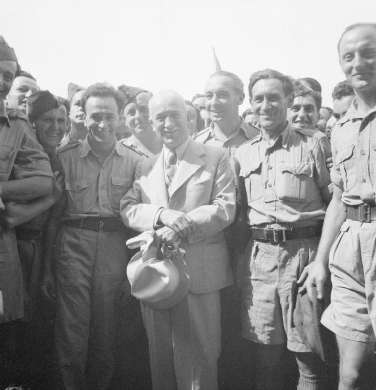 The Czechoslovak Government in Exile during the Second World War Dr Edouard Benes, the exiled President of Czechoslovakia, with Czechoslovak Air Force personnel and troops in the Eastern Command, who had recently returned from the Middle East to Britain.